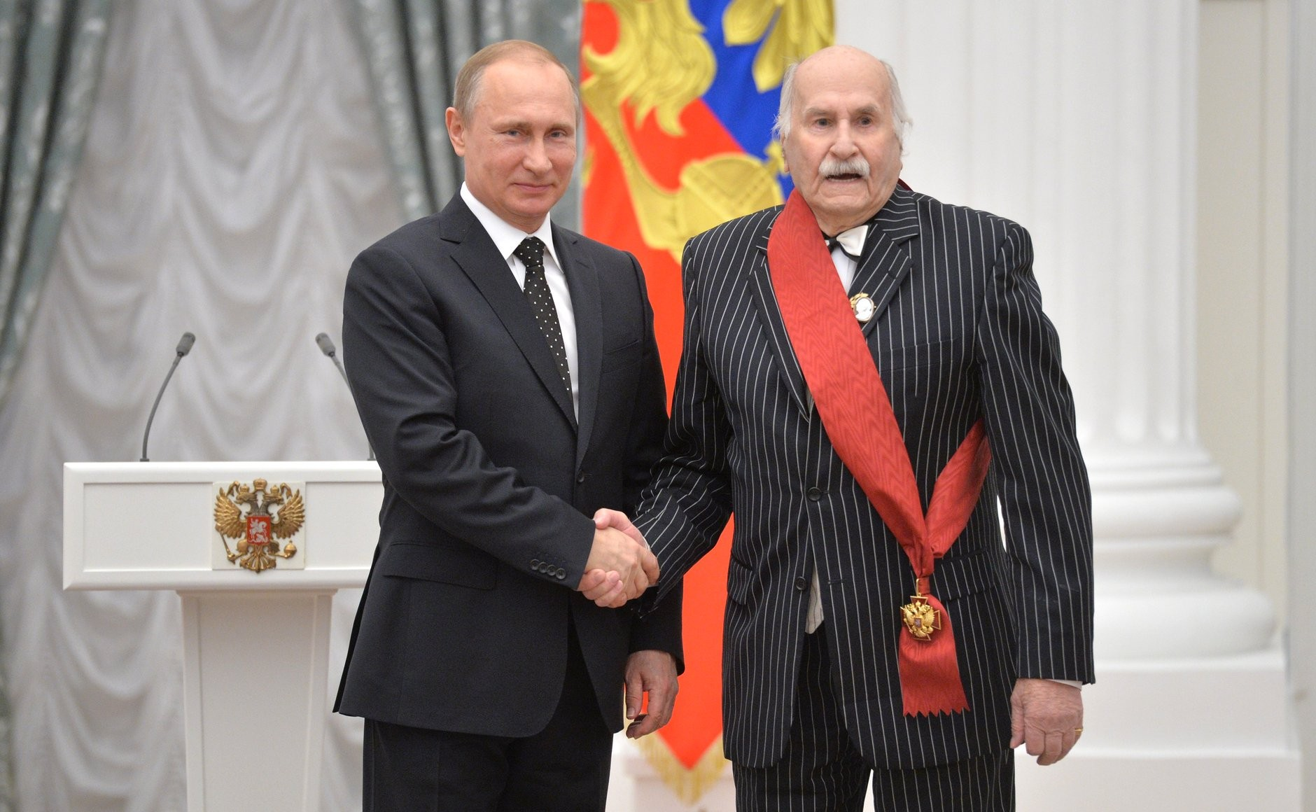 Vladimir Putin and Vladimir Zeldin at award ceremony. Moscow, Kremlin. 21 May 2015.